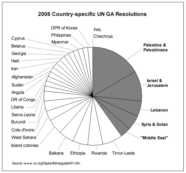 Break down of Country-specific United Nations General Assembly resolutions for the 61st session (2006-2007). The 61st session passed 292 resolutions, of which 61 were country-specific (each part counted separately). Methods: Country-specific resolutions: resolutions with mention, in the title, of a specific country or small region, e.g. "Southern Africa", "Balkans". Palestinians & Palestine: all resolutions containing the following words in their title: Palest*, 1967 Israel & Jerusalem: all resolutions containing the following words in their title: Israel*, Jerusalem Lebanon: all resolutions containing the following words in their title: Lebanon Syria & Golan: all resolutions containing the following words in their title: Golan, Disengagement Middle East: all resolutions with the following words in the title: Middle East Each resolution or part is counted once. Iraq and Chechnya were the subject of no resolution. Personal comment This graph is, heavens forbid, the result of Original Research by myself, and is also an image. Original research is not allowed in Wikipedia, but original images are. The survival of this graph to the scrutiny of the NOR police therefore depends on this ambiguity. If you want to publish this data elsewhere, I'll be glad to email it to you as an Excel table. Emmanuelm 12:50, 20 September 2007 (UTC)